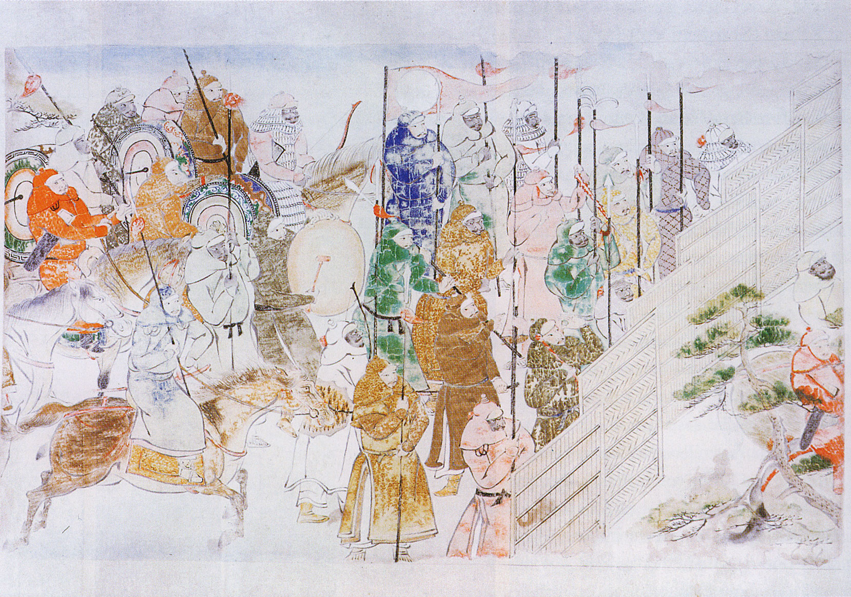 Painting scrolls on the Mongol invasions (Japanese: Mooko shuurai e-kotoba), by Fukuda Taika, 1846 (copy of a 1293 work by an unknown artist). Ink and water colors on paper. Height 47 cm, length of the whole scrolls is 12.12 m (scroll 2) and 11.96 m (scroll 4). Tokyo National Museum, Inv. no. A-1637. The scrolls deal with the deeds of Takezaki Suenaga, who lived in southern Higo (now Matsubase municipality, Kumamoto prefecture) during the Mongol invasions of 1274 and 1281.